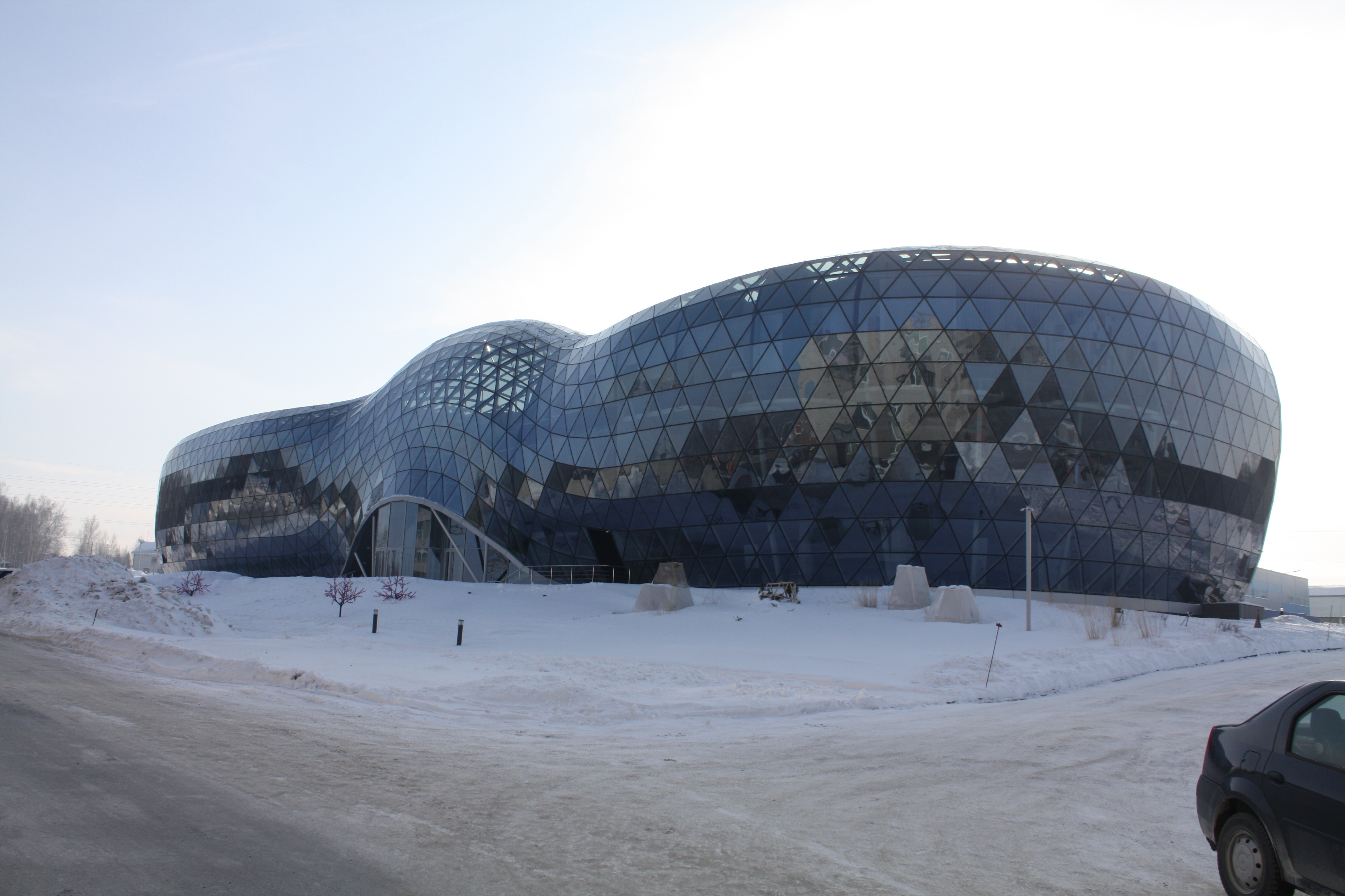 BioTechnopark in Koltsovo. Novosibirsk Oblast.